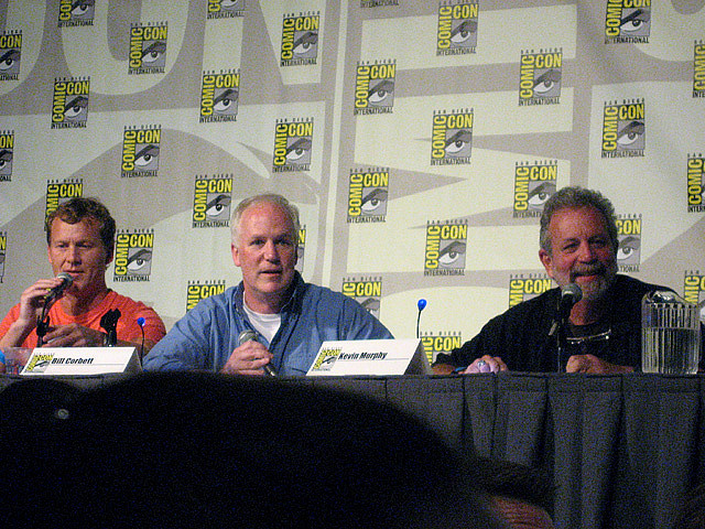 The crew of Rifftrax (left to right: Mike Nelson, Bill Corbett, and Kevin Murphy) at the 2009 San Diego Comic Con